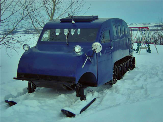 Mid-1950's Metal Bodied Bombardier Snow Bus/Snowmobile